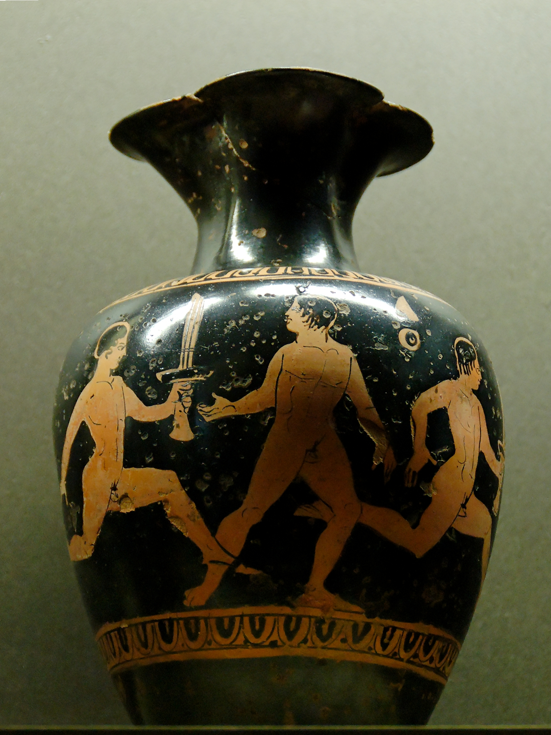 Lampadedromia (torch relay). Attic red-figured oinochoe, 4th century BC. From Italy (?).